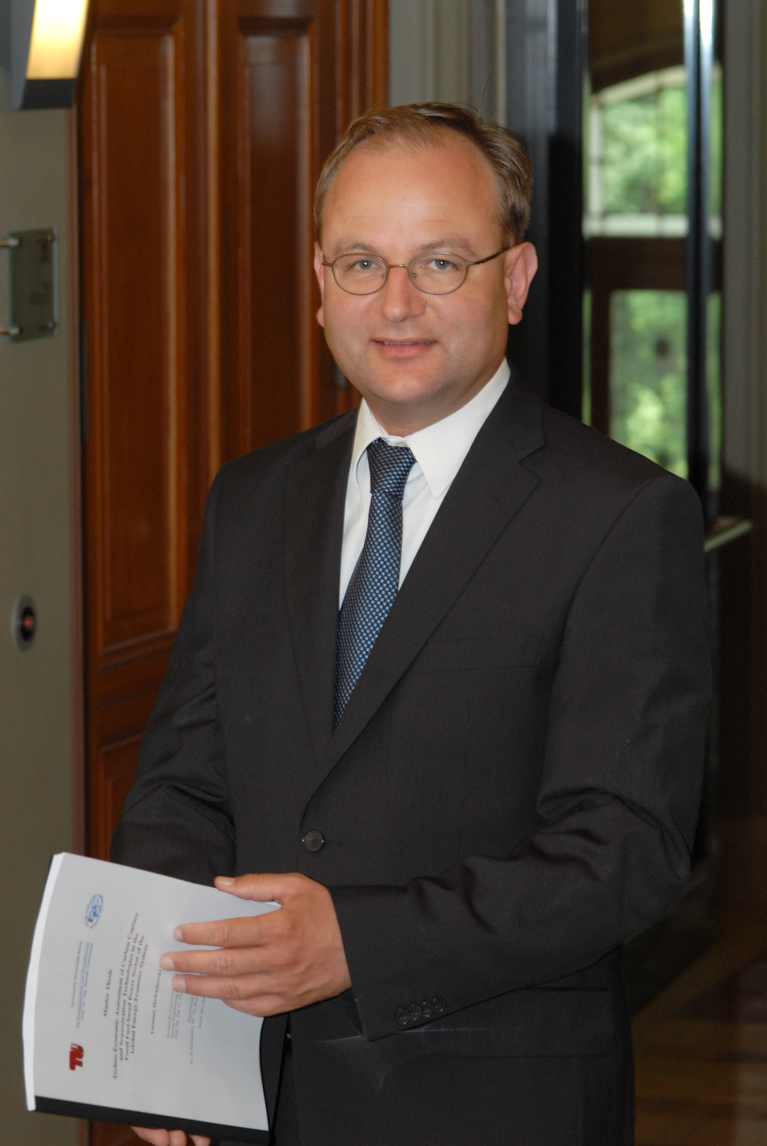 Prof. Dr. Ottmar Edenhofer